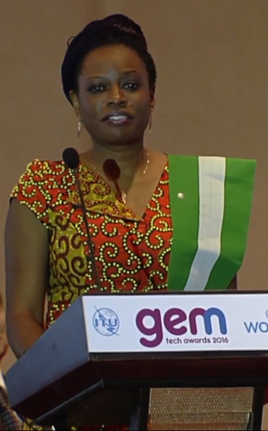 Gem Tech Awards 2016 Speech Unoma Okorafor, Founder and Chief Executive Officer, Working to Advance STEM Education for African Women Foundation (WAAW Foundation) Winner of the category Promote Women in the Technology Sector.